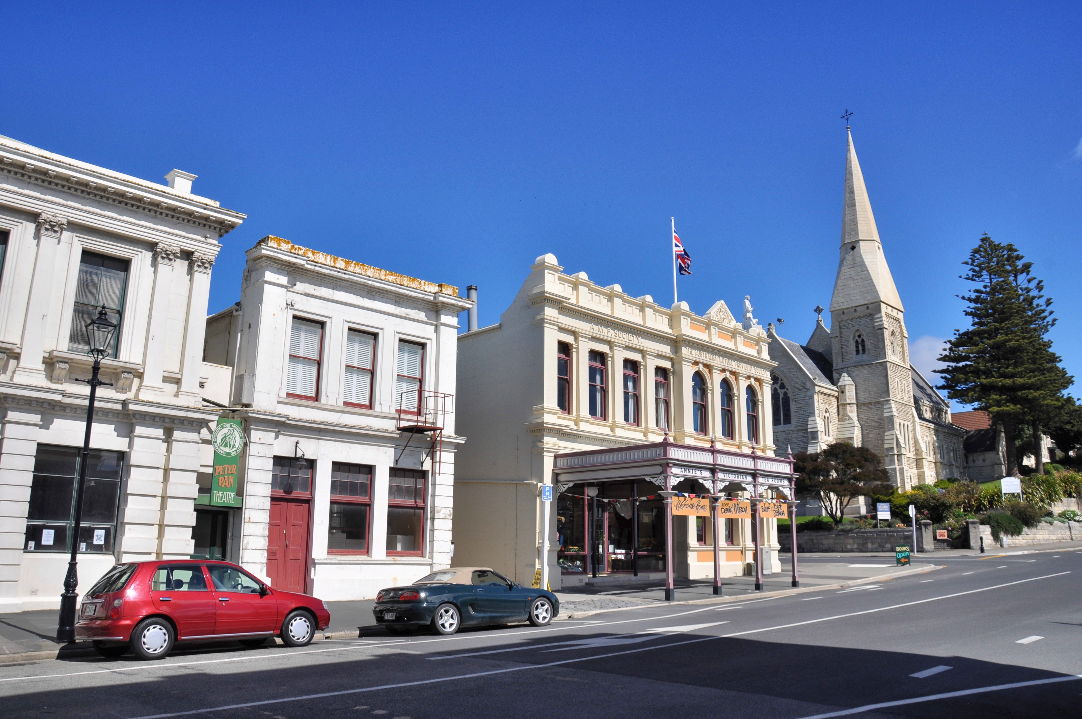 J.G. Flett's Bookstore and AMP Society Building, Oamaru